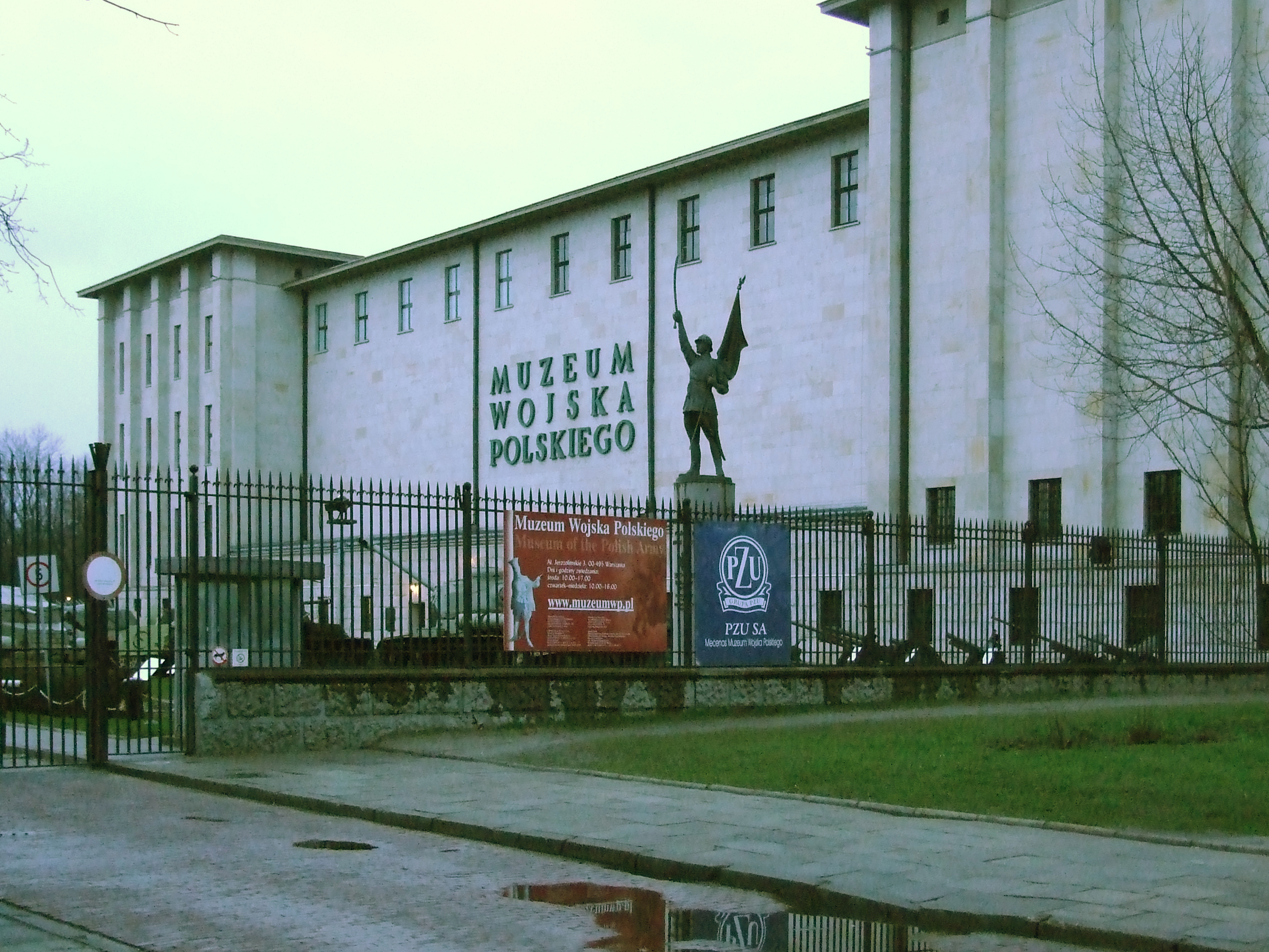 Military museum in Warsaw